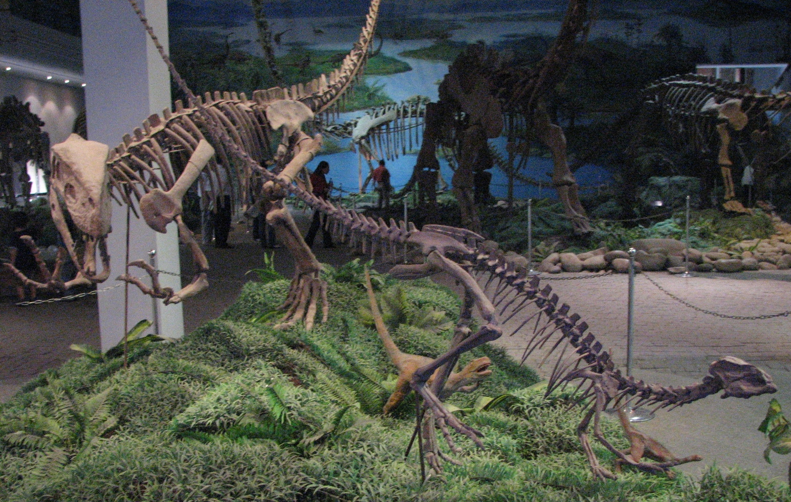 Gasosaurus and Agilisaurus in the Zigong Dinosaur Museum. (Art Yang, 2006).